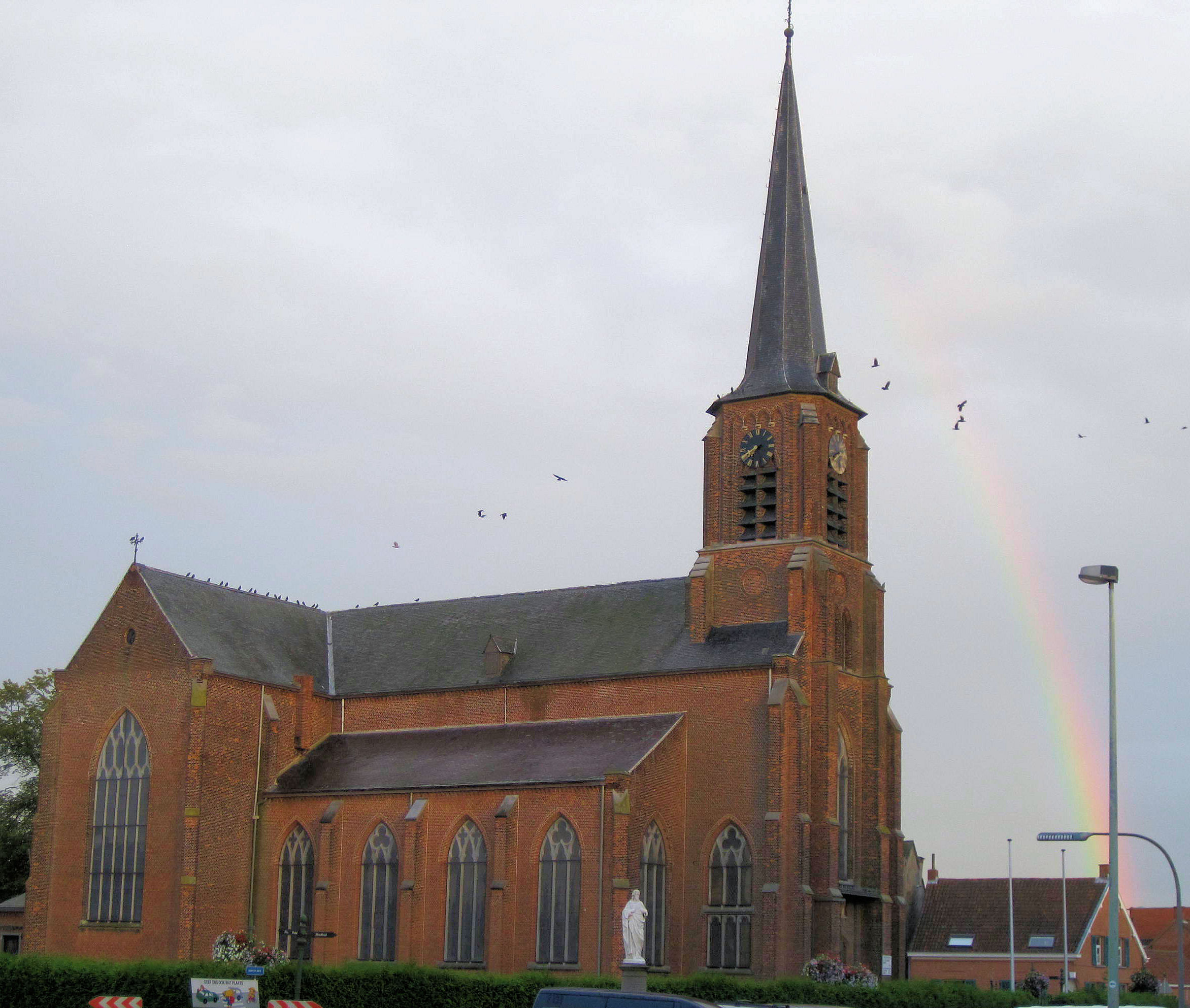 Church St. Jan in de Olie, Vremde, Belgium